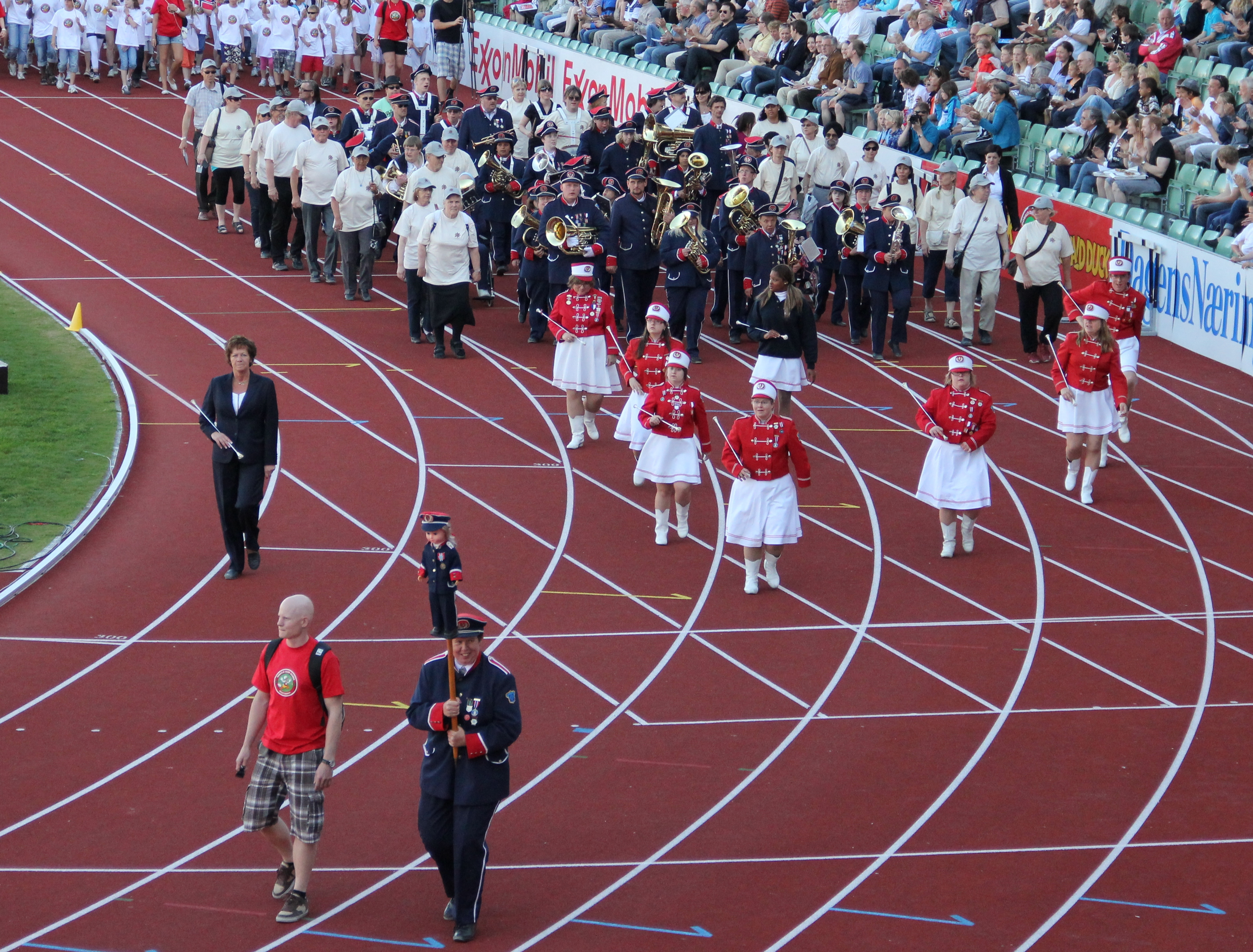 Torshovkorpset, a brass band for musicians with spesial needs. Here marching during Bislett Games in Oslo.